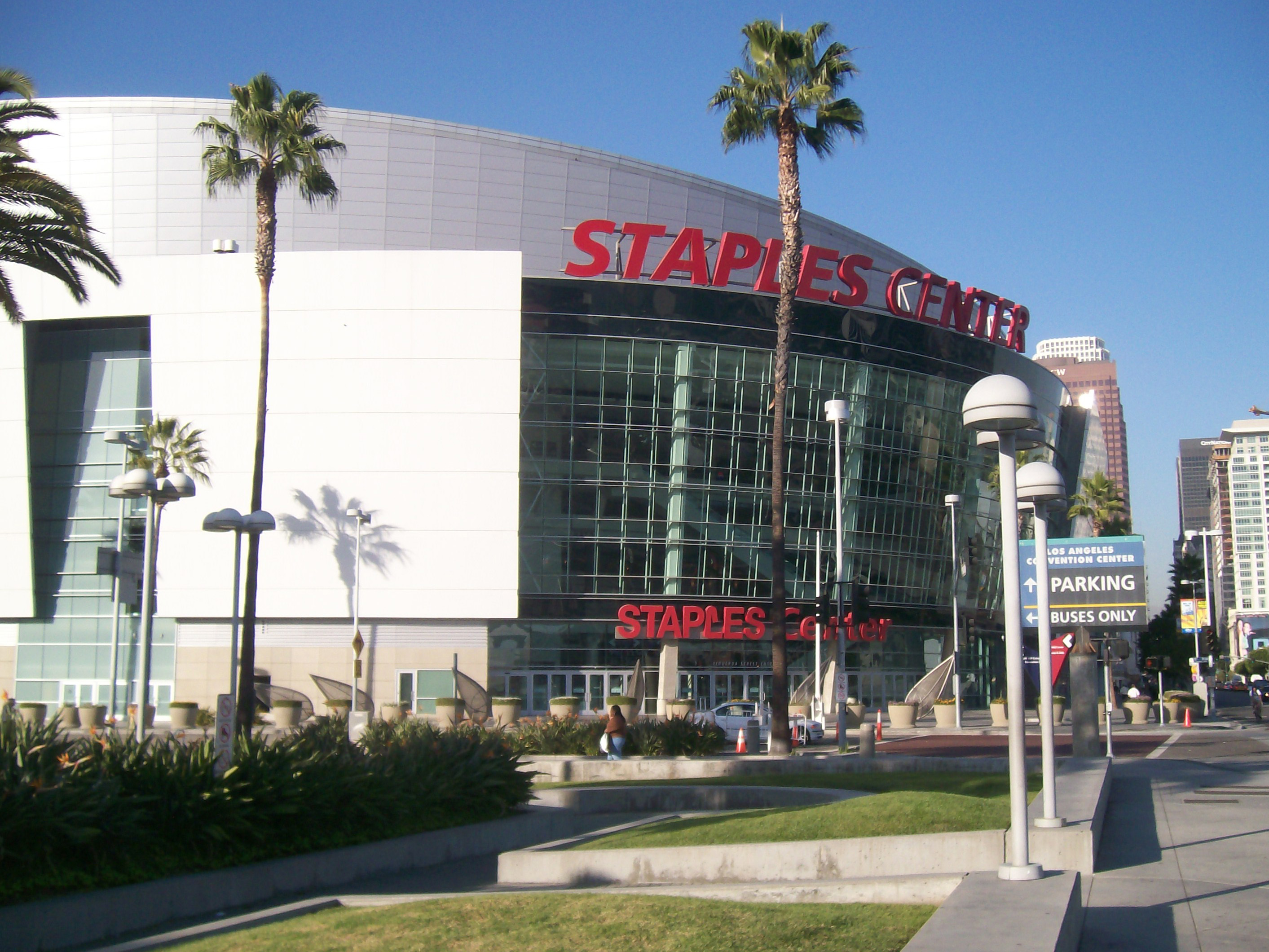 View of the Staples Center from Figueroa St., just north of Pico.